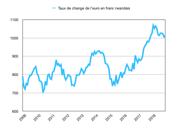 Exchange rate chart of the Euro compared to the Rwandan Franc on 2009-2018 period